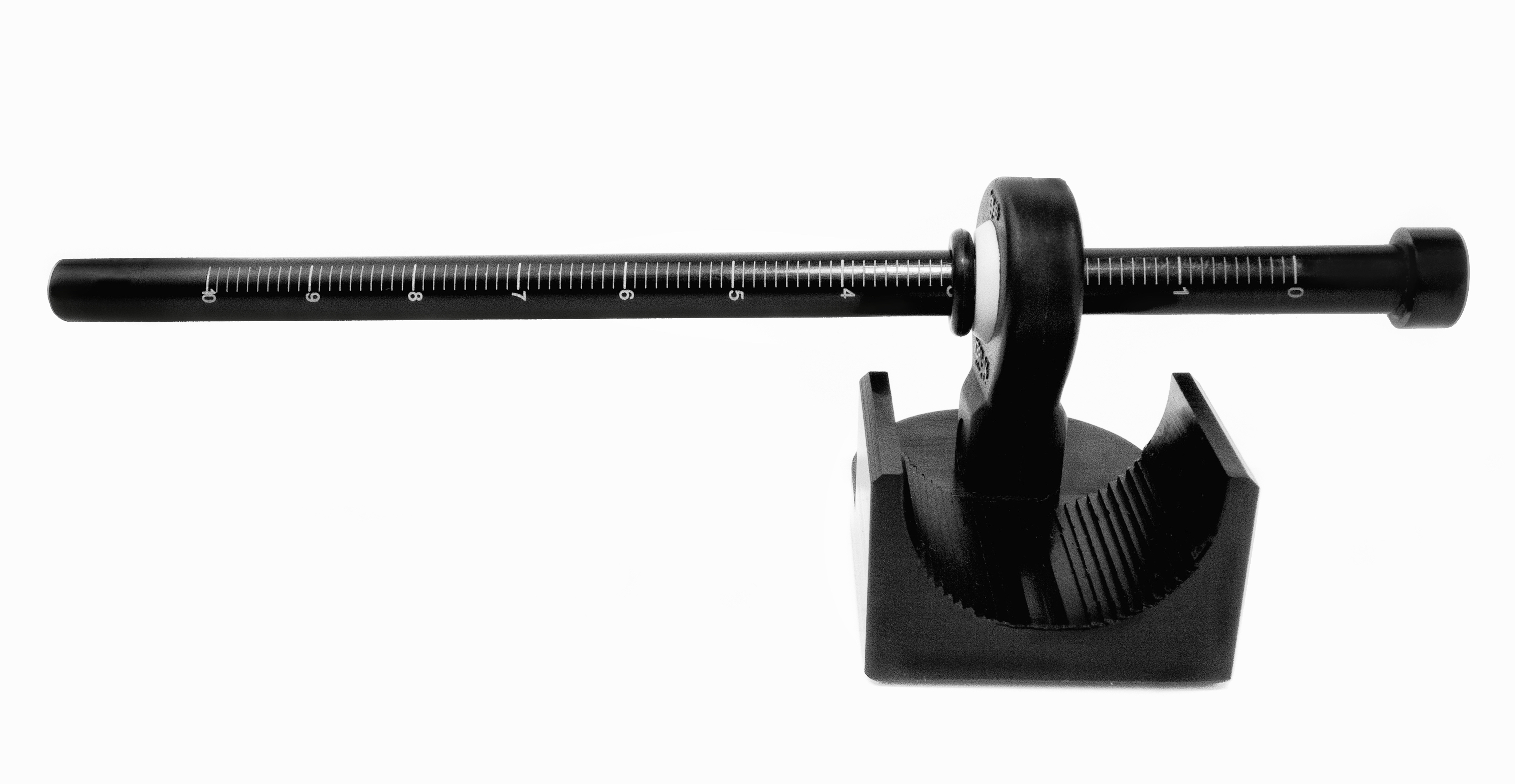 front view picture of the Laxometer